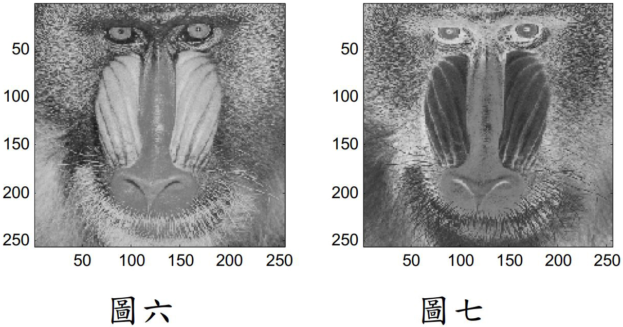 NRMSE comparision - same photo with different shadow effect